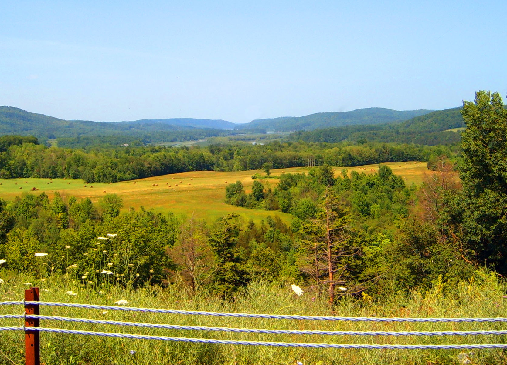 View north toward southern end of Lake Champlain from NY 22 north of Whitehall. Land in right of background is in Vermont